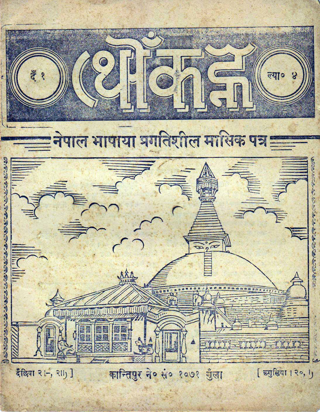 Cover of "Thaunkanhay" magazine, Vol.1, No. 4, the first Nepal Bhasa magazine to be published from Nepal in 1951. Cover shows woodblock illustration of Bouddhanath stupa in Kathmandu.